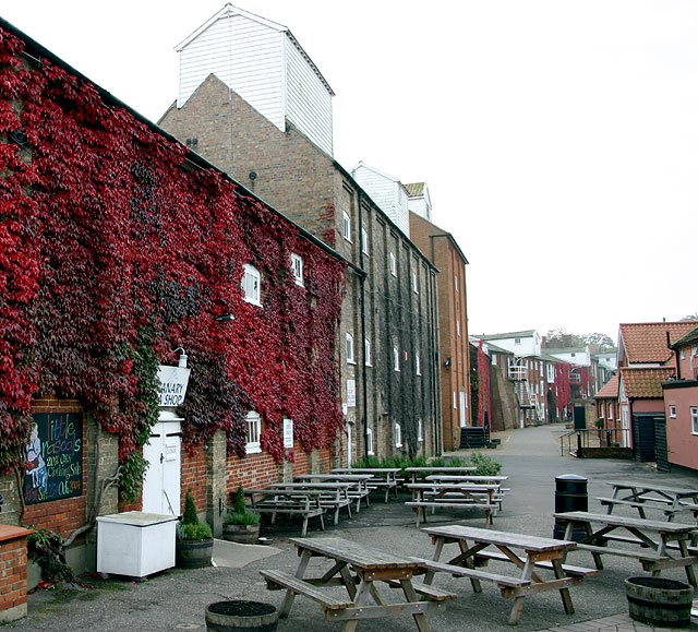 Snape Maltings, Snape, Suffolk, England